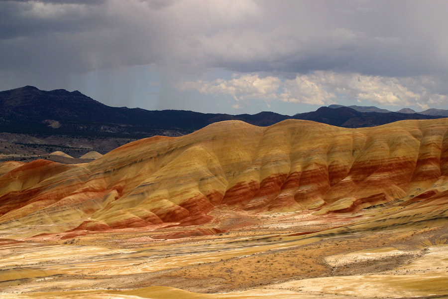 Painted Hills, John Day Fossil Beds National Monument, Oregon